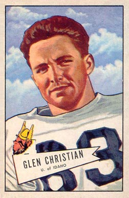 American football player Glen Christian on a 1952 Bowman Large card.